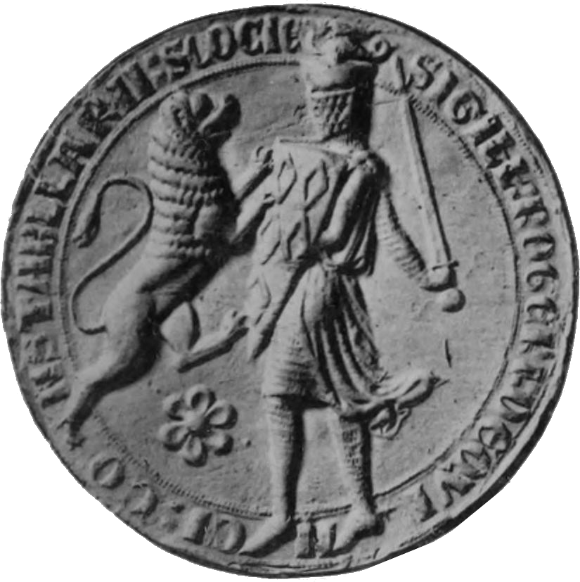 Counter-seal of Roger de Quincy, Earl of Winchester (died 1264), 1273.